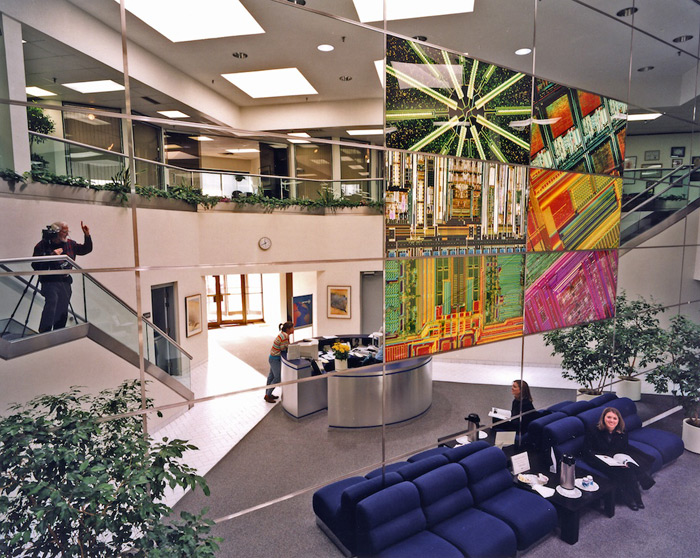 The two story high installation of the mural in the Mitel lobby. Hans-Ludwig Blohm appears on the stairs in a mirror image with his tripod and medium format Mamiya camera.